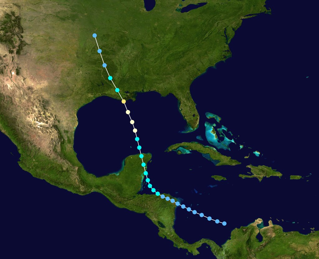 1920 Atlantic hurricane 2 track. Uses the color scheme from the Saffir-Simpson Hurricane Scale.